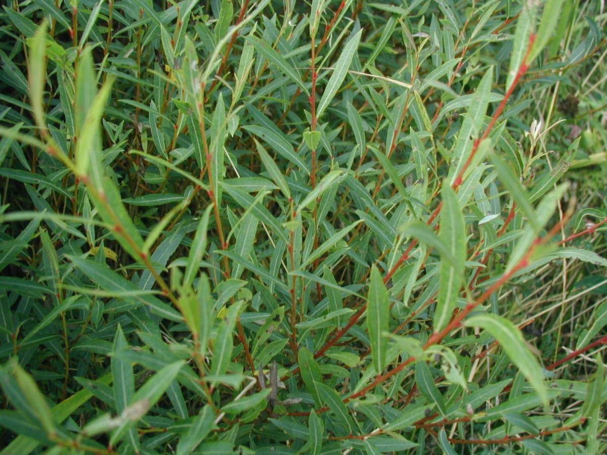 Salix purpurea: Leaves and twigs. Photo: Sten Porse Removed watermark read: Sten Porse 08-2001